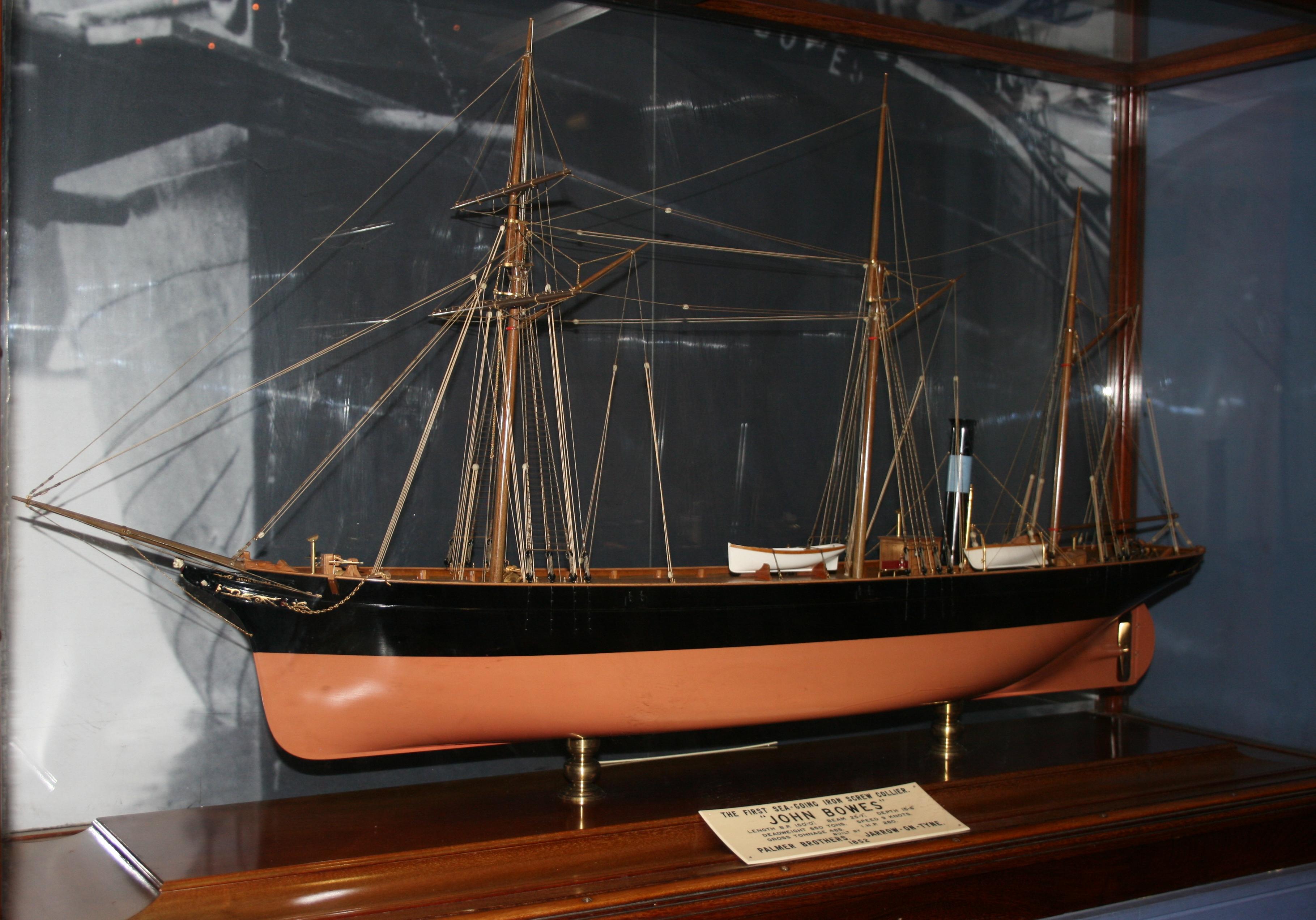 Model of the sail-steamer John Bowes in the collection of Tyne & Wear Archives and Museum Service South Shields Museum (display).